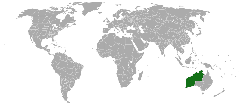 Acacia cuthbertsonii range map created with a blank map from the Commons, info from ILDIS LegumeWeb and the GIMP.